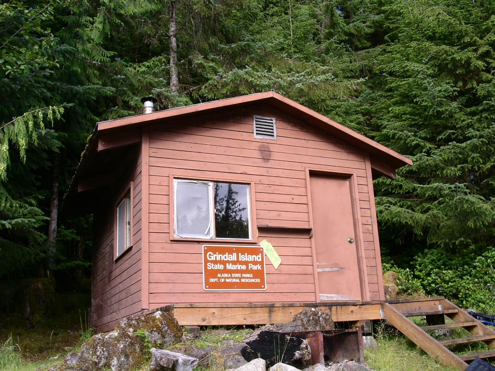 Guest cabin on Grindall Island, Alaska, USA